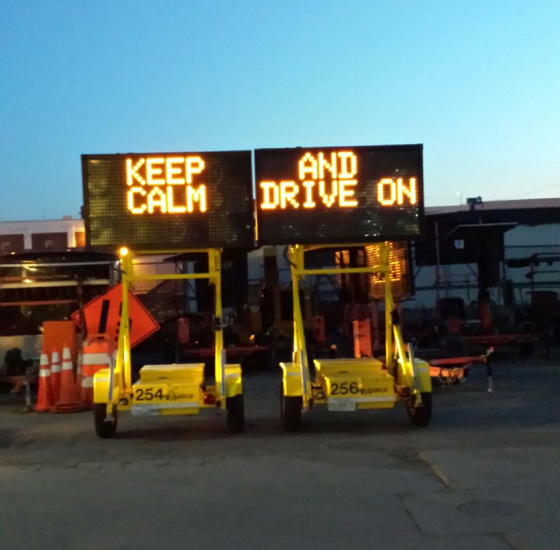 MassDOT continues the #UseYahBlinkah road safety message campaign, #DOTspeak, with a road rage message from August 15-18.